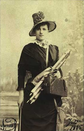 Agnes Slott-Møller, née Rambusch (1862-1937), Danish painter, wife of Harald Slott-Møller